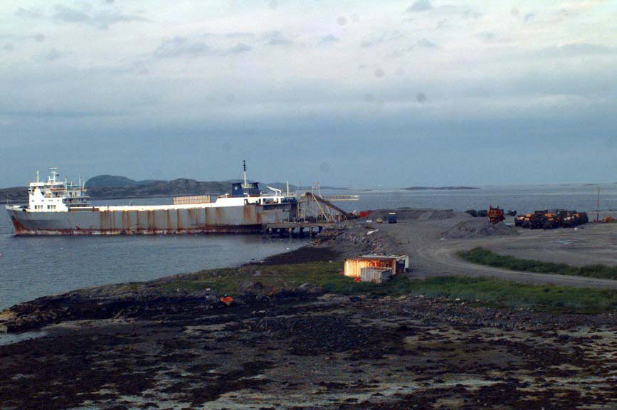 The MV Villars is shown positioning itself into place at the Norwegian port of Valsneset awaiting US Marine Corps cargo. All equipment loaded here have been pulled from the caves located in the Trondheim region of central Norway and is on its way to Estonia for Baltic Challenge '97, a Partnership for Peace exercise. The US Marine Corps have equipment stored in Norway as part of the Norway Air-Landed Marine Expeditionary Brigade (NALMEB) Prepositioning Program. The NALMEB program contains equipment and supplies to support a 13,000 person Marine Air Ground Task Force (MAGTF) for 30 days. The Government of Norway is the on site "contractor" and provides storage, maintenance facilities, services, and security.